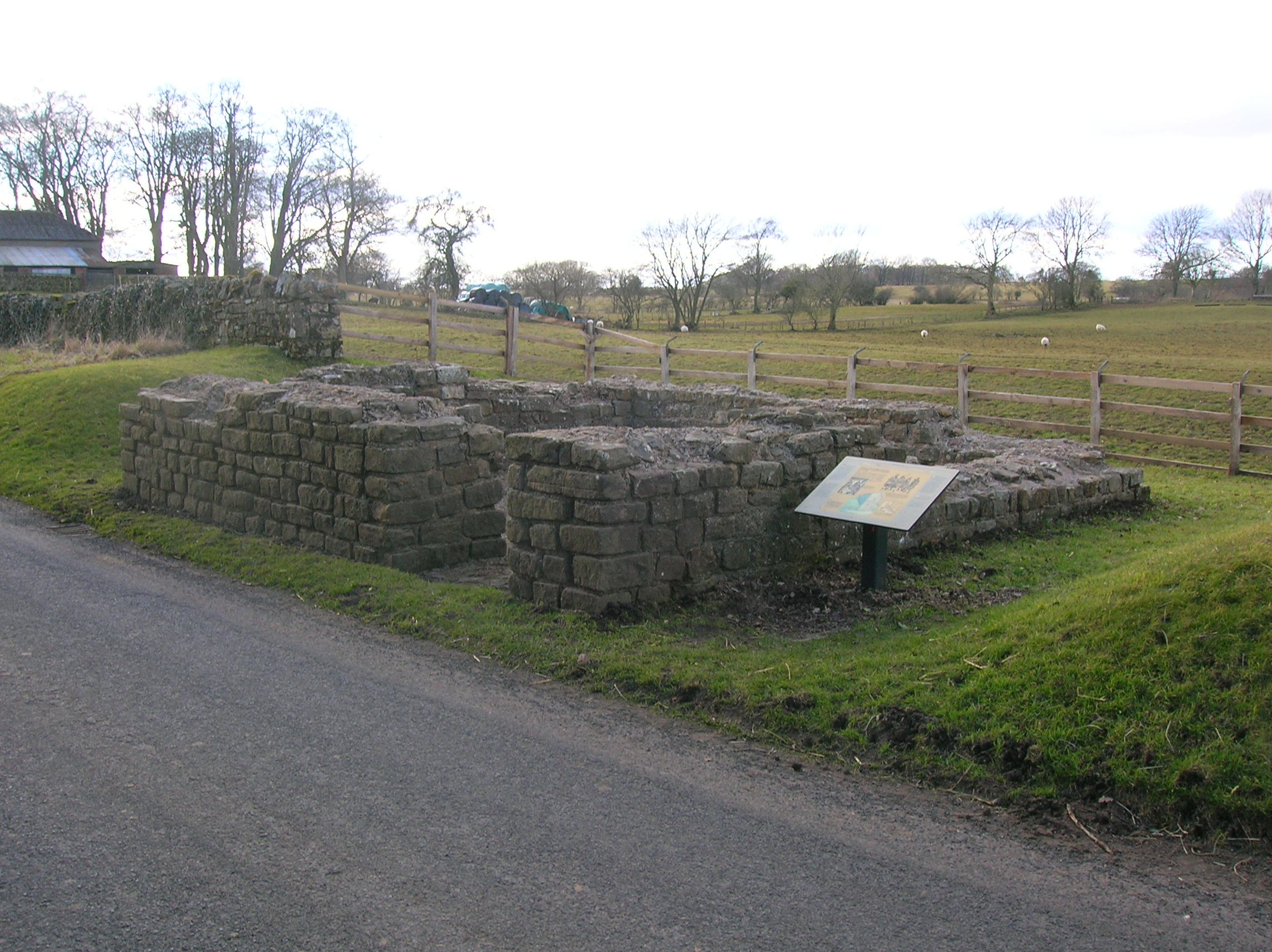 Leahill Turret 51B, looking East, Hadrian's Wall, Cumbria, England